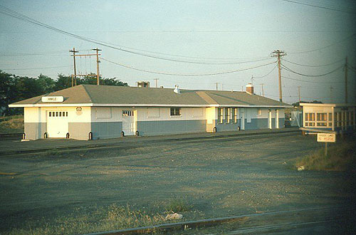 The former Hinkle station and passenger shelter (Amshack), September 1982